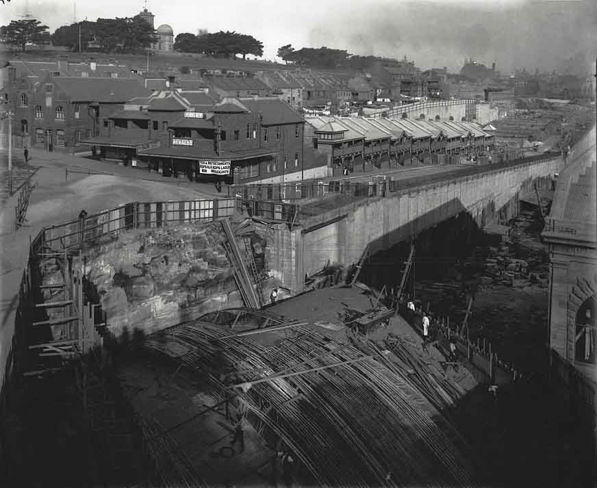 Constuction of Munns St bridge over Hickson Road, Millers Point Dated: c. 1 January 1911 Digital ID: 9856_a017_A017000010 Rights: We'd love to hear from you if you use our photos. Many other photos in our collection are available to view and browse on our website using Photo Investigator.